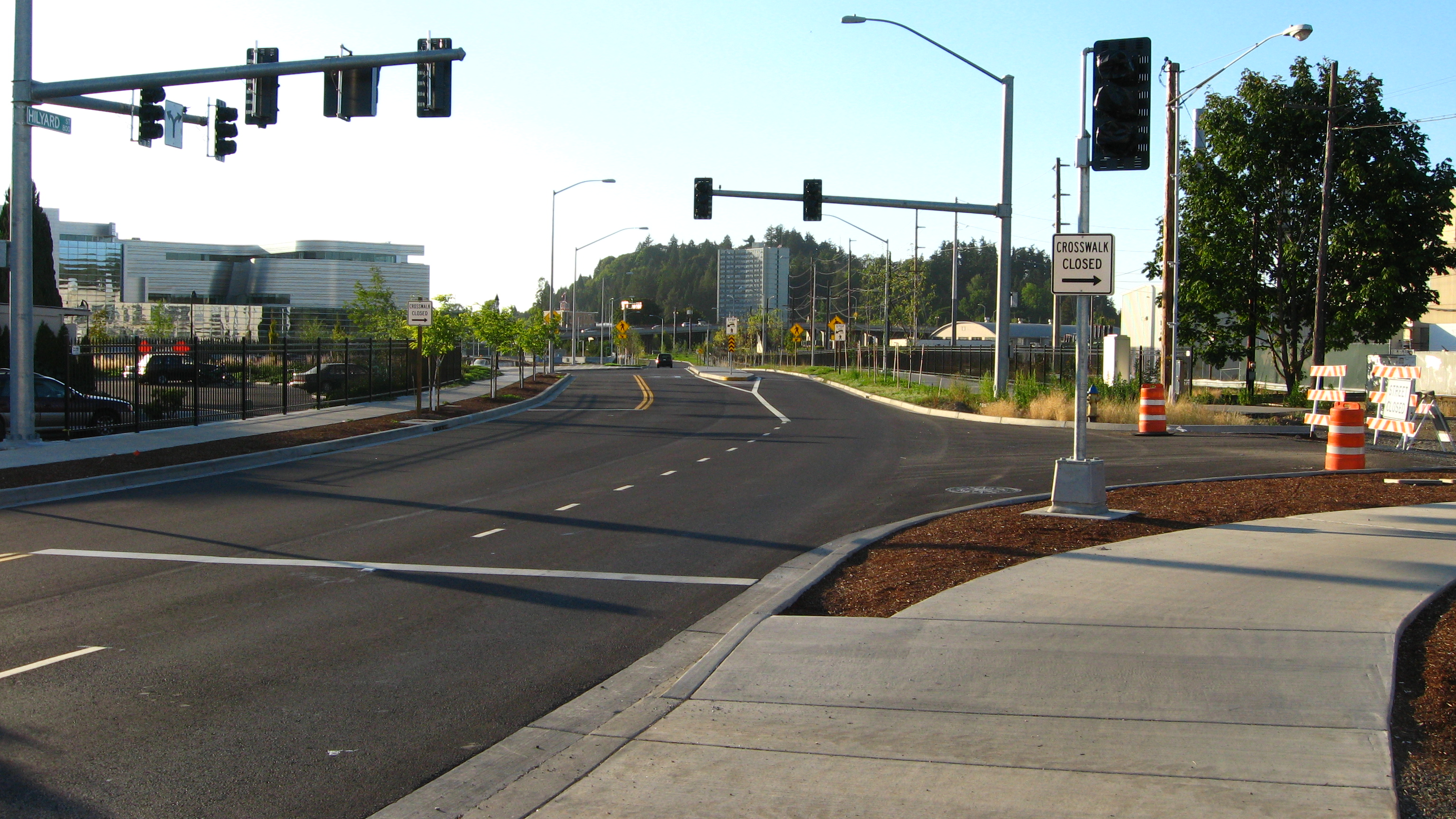 traffic signals, intersection, road construction, Eugene, Oregon (United States)